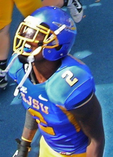 Duke Ihenacho, safety for the San Jose State Spartans football team.